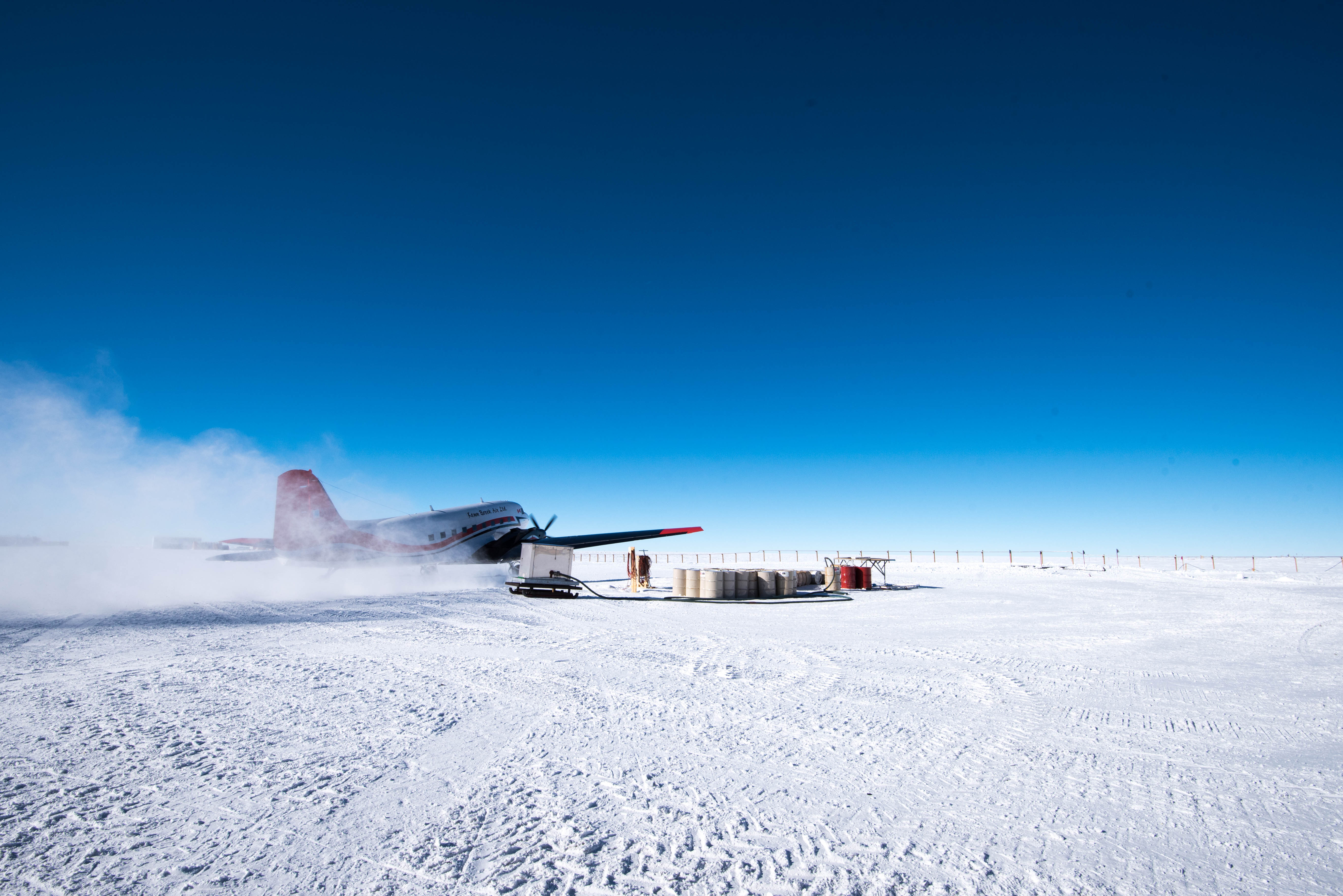 Concordia research base in the Antarctic is a place of extremes. During summer, aircraft take off on an almost daily basis. Concordia is a hubbub of activity as researchers from disciplines as diverse as astronomy, seismology, human physiology and glaciology descend to work in this unique location. For the rest of the year, around 14 crewmembers remain to keep the station running during the cold, dark winter months. ESA sponsors a research medical doctor in Concordia to study the effects of living in isolation. The extreme cold, sensory deprivation and remoteness make living in Concordia similar to living on another planet. Credits: ESA/IPEV/PNRA-B. Healey